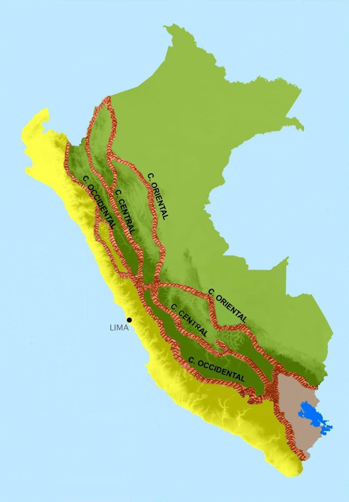 Mountain systems of the Peruvian Andes.